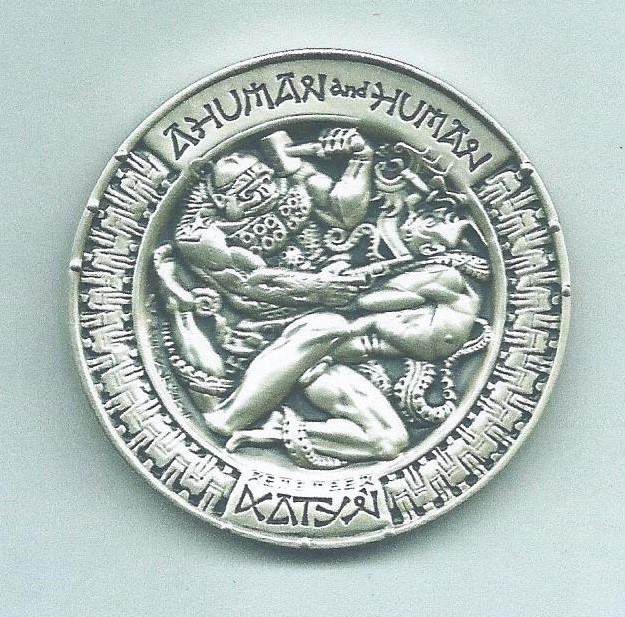 Obverse: Katyn Medal, 1977